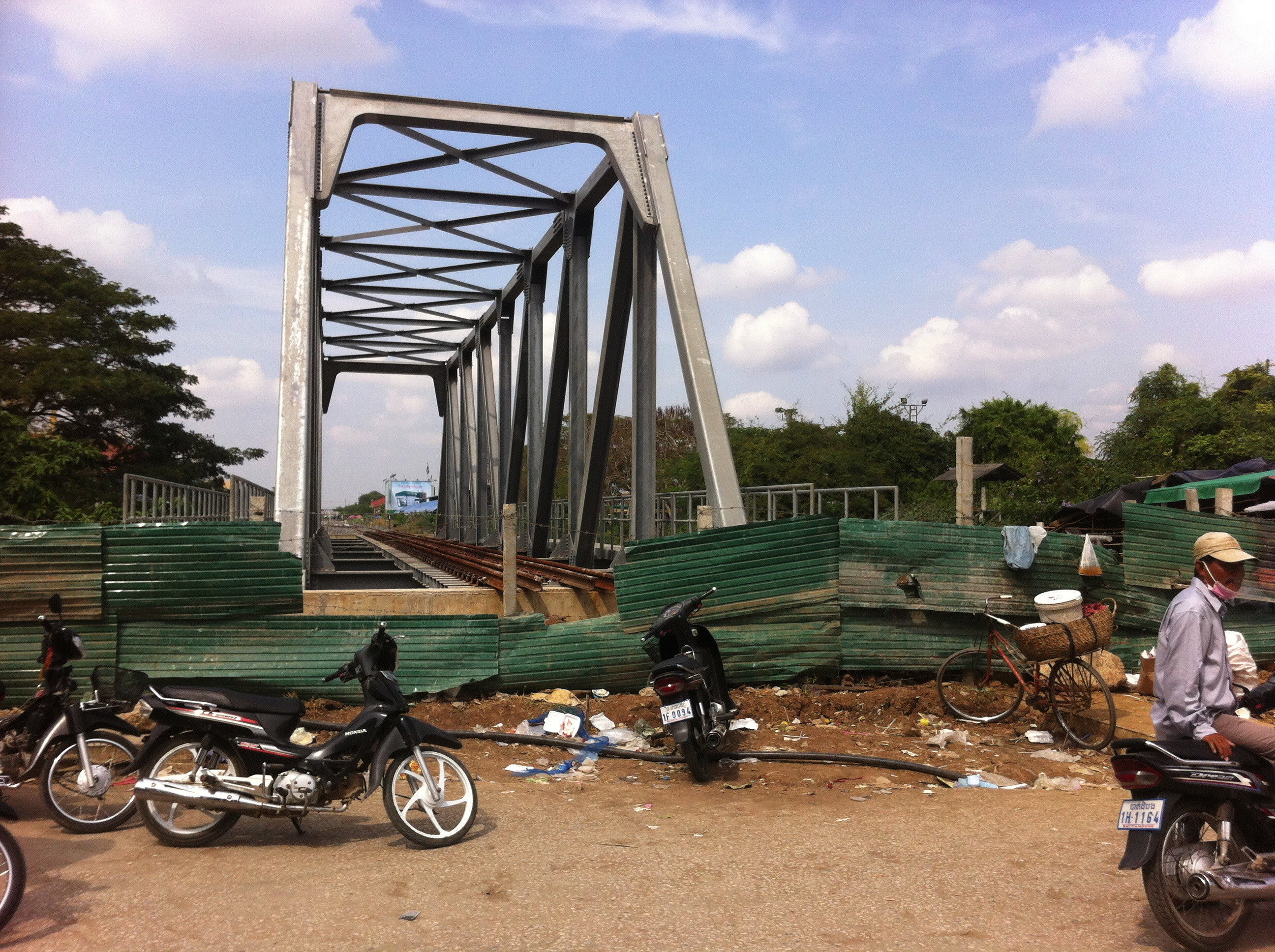 The Khlong Luek Bridge bringing the Thailand's eastern railway to Cambodia is built. In 2016 January the line ends on the Eastern abutment on Cambodian soil, in Poipet / Paôy Pêt, as seen in this photo.